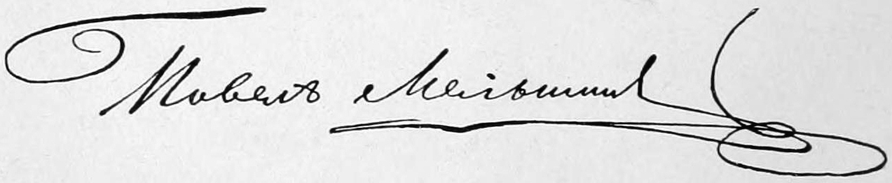 Signature of writer Pavel Ivanovich Melnikov